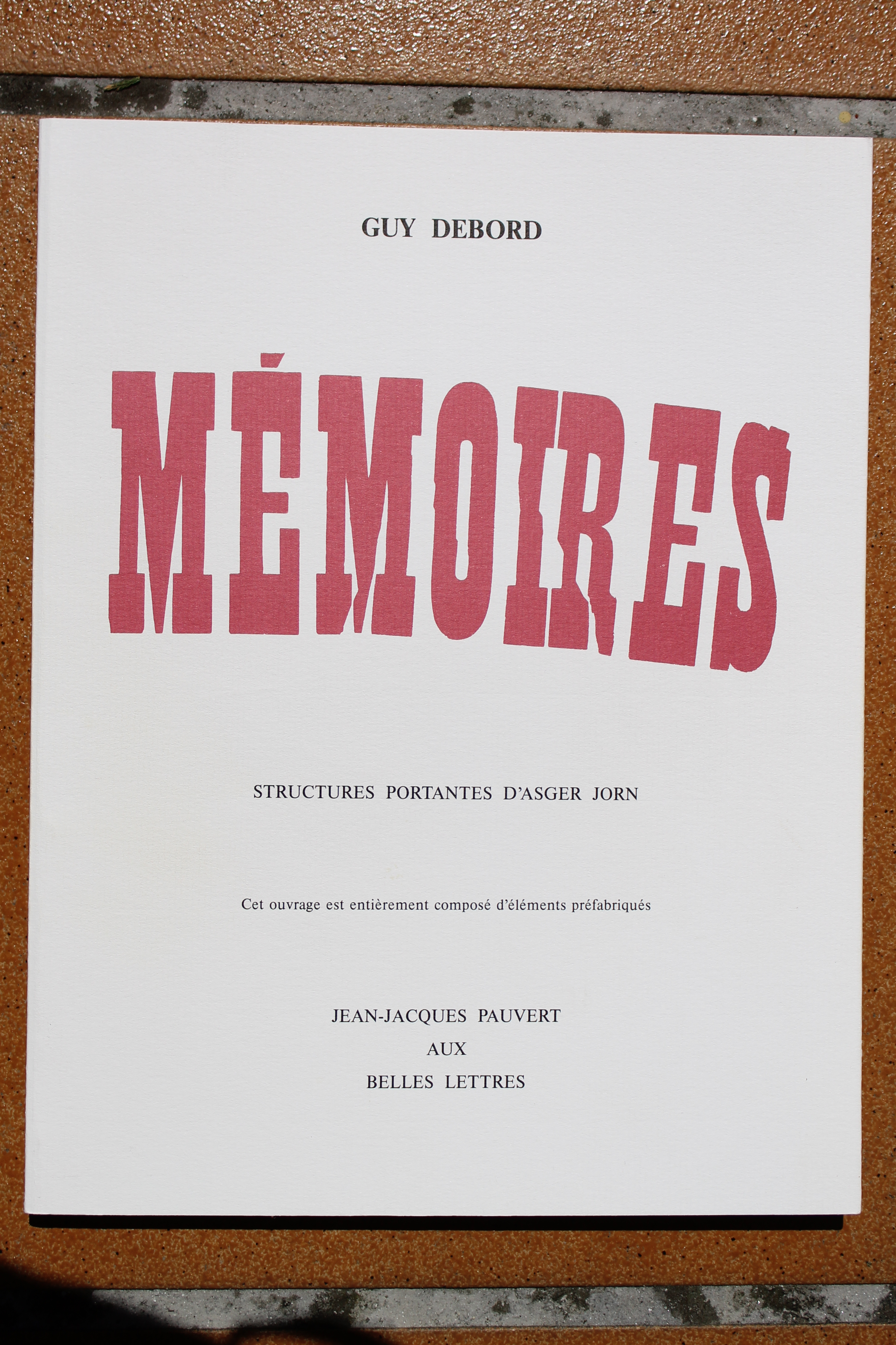 Mémoires cover